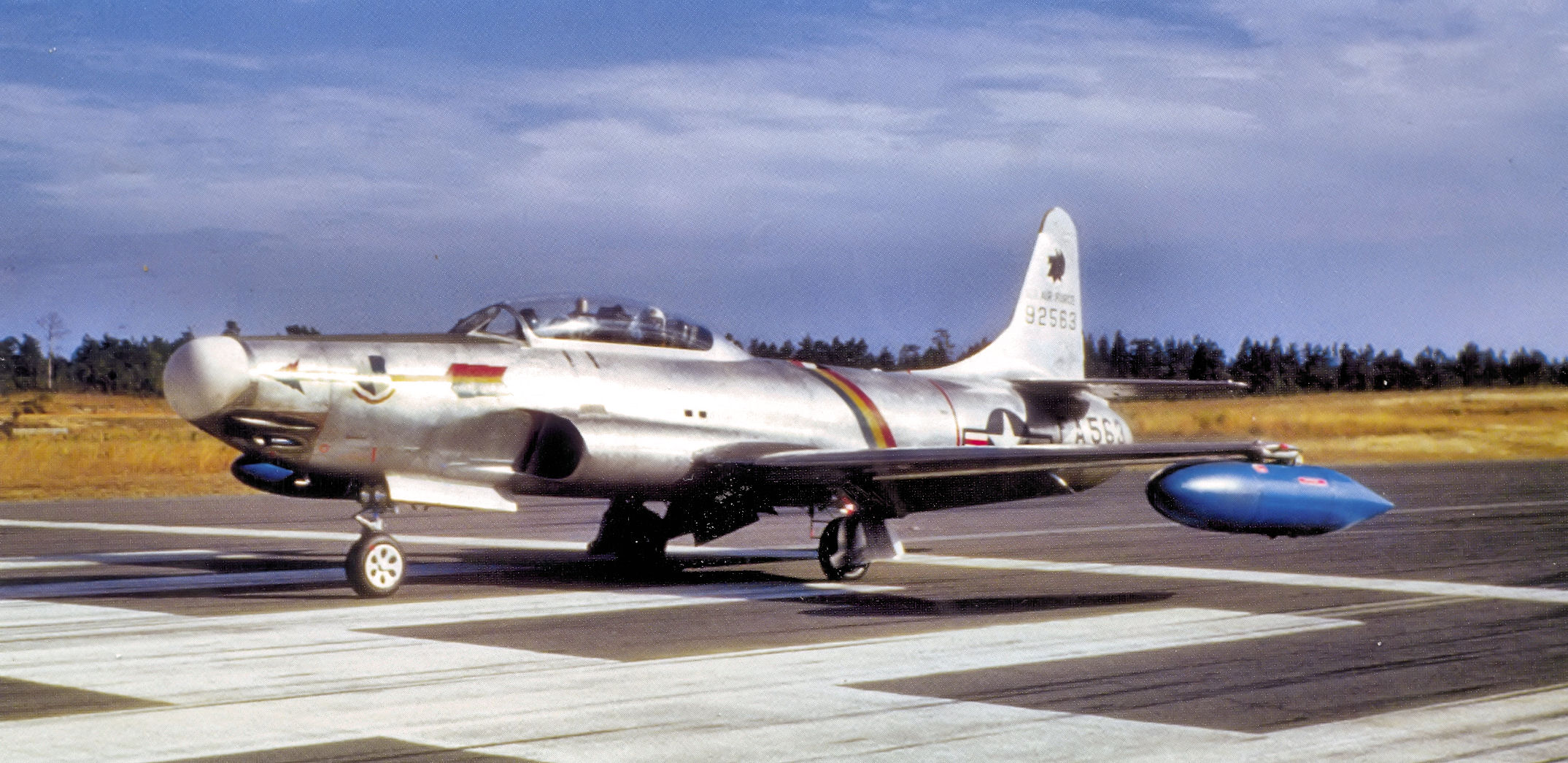 52d Fighter-Interceptor Group Lockheed F-94A-5-LO 49-2563 Marked as wing commander's aircraft Stationed at McGuire AFB, New Jersey. Received F-94A Starfire October 1950 Photo Taken July 1951